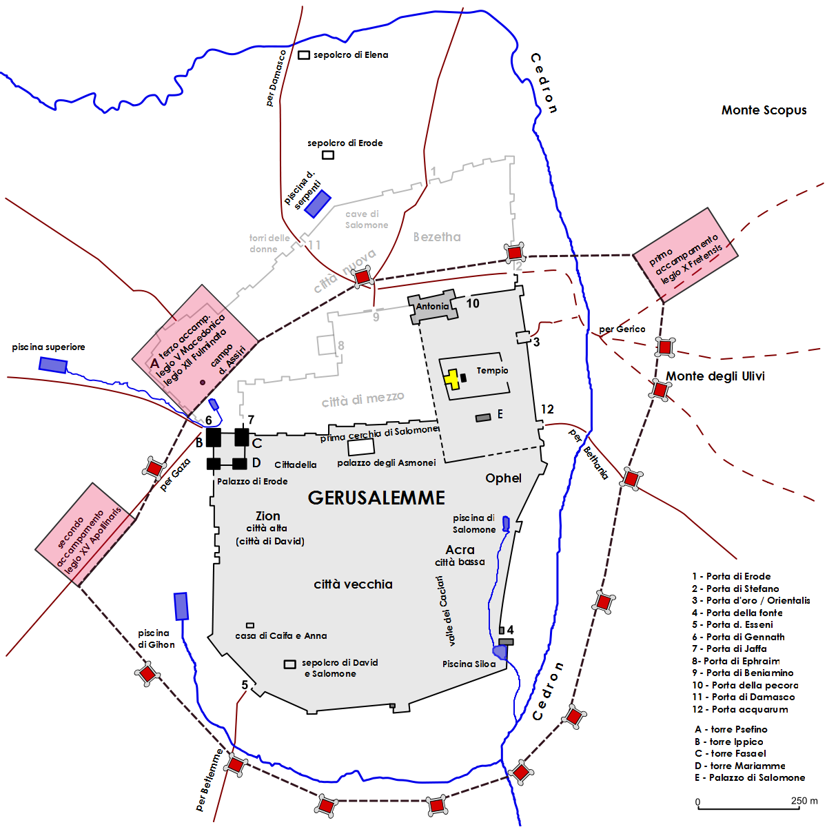 Jerusalem at the time on siege of 70 - 6th step